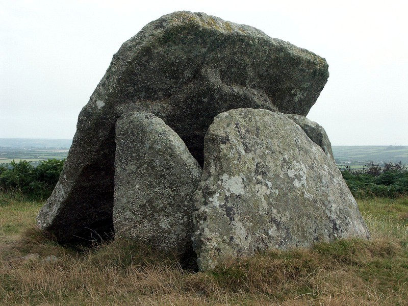 mulfra quoit - morvah - penwith - cornwall - UK